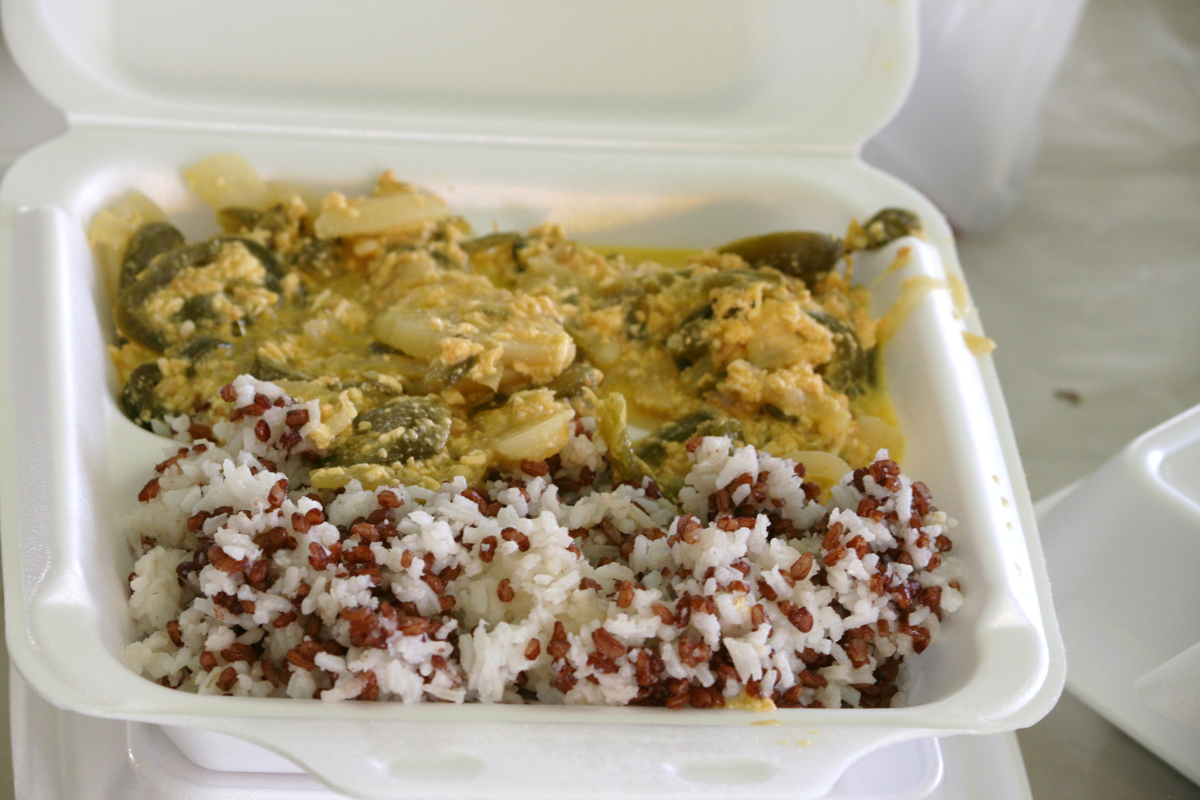 The national Bhutanese dish - hemadatsi (chili peppers with yak cheese sauce) and rice (mix of Bhutanese red rice and white rice).